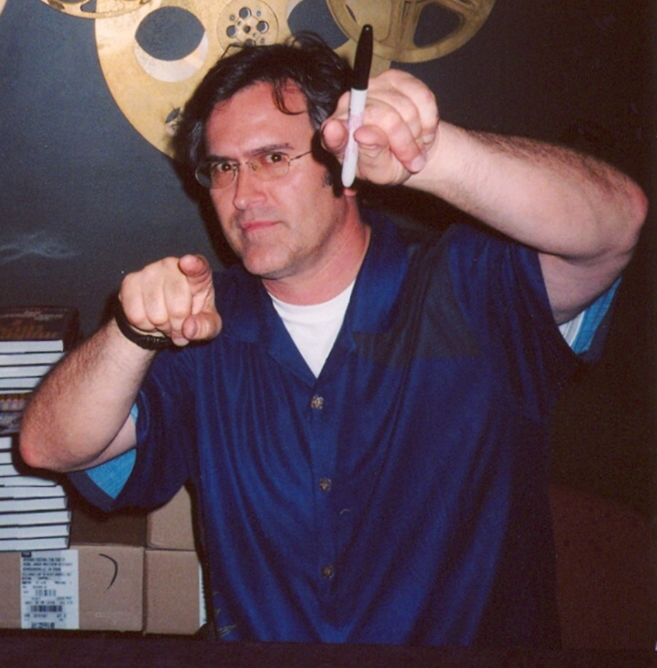 Photo of Bruce Campbell at the Detroit premiere of his film The Man with the Screaming Brain.